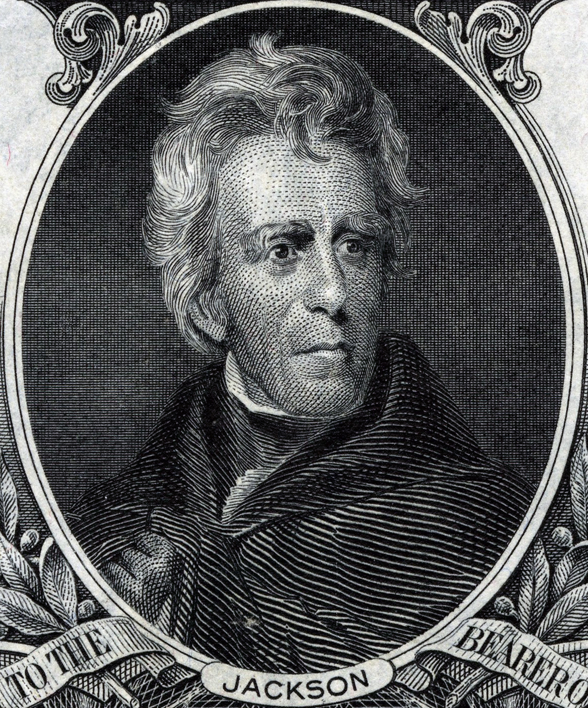 Engraved portrait from United States Currency